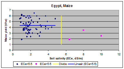 Yield of maize (corn) versus soil salinity (ECe, dS/m) measured in farmers' fields in the Nile Delta, Egypt